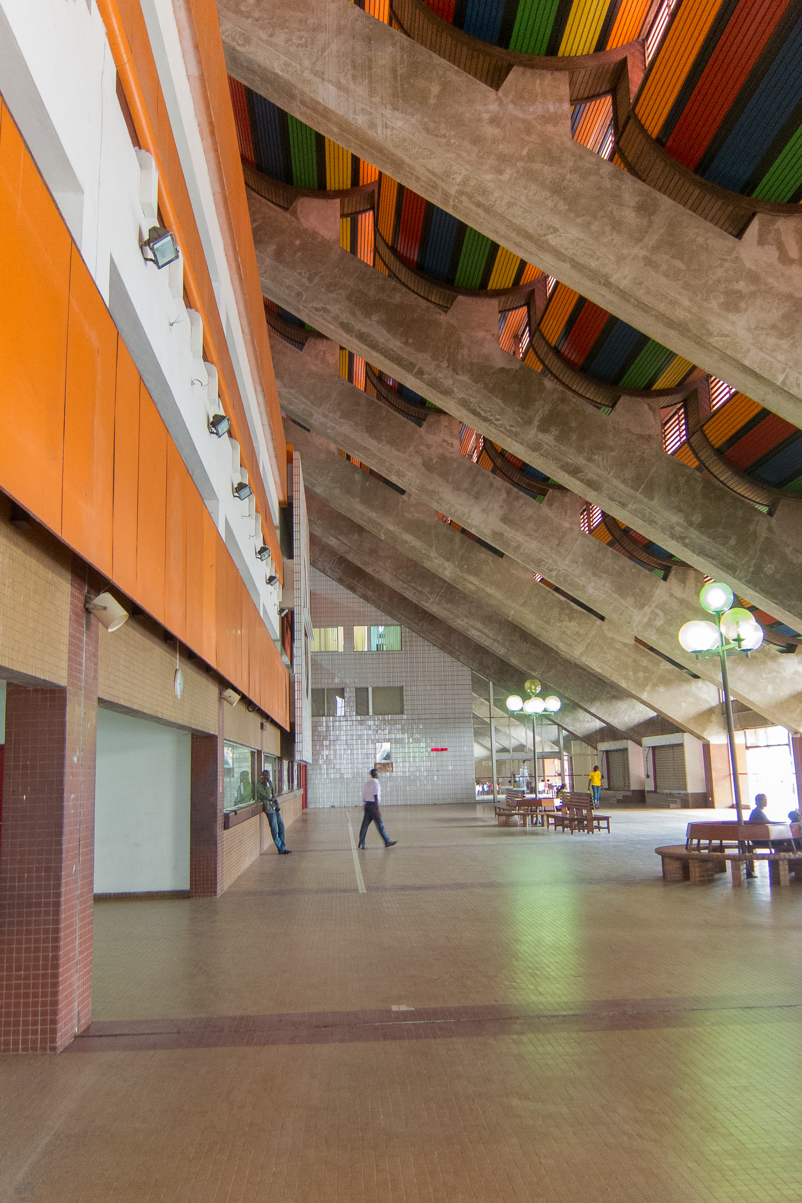 The interior of Gare de Bessengue, the primary train station in Douala, Cameroon.Gare de Bessengué